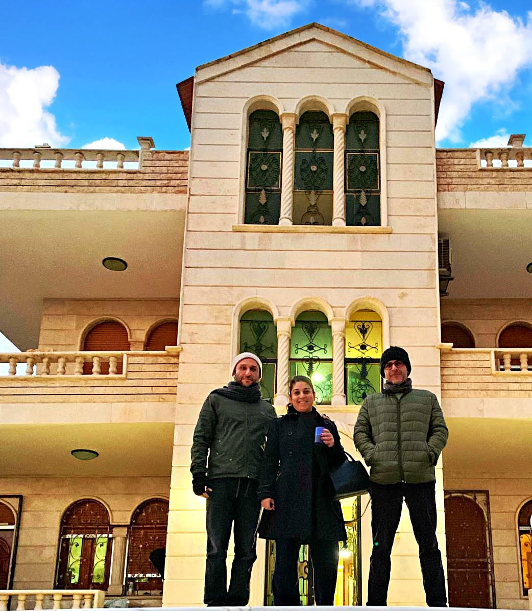 Her Sibling